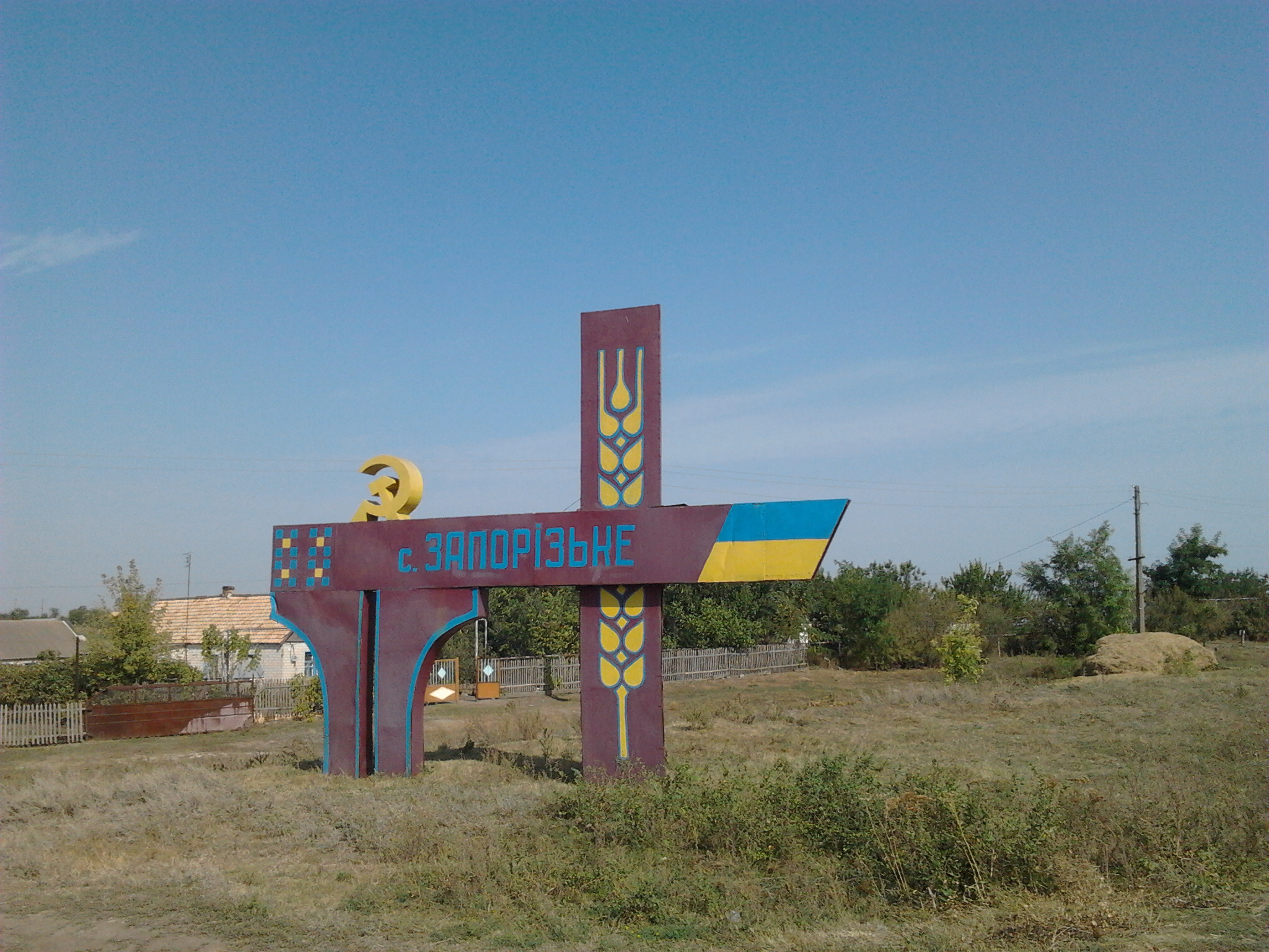 Zaporiz'ke, Ukrainian village